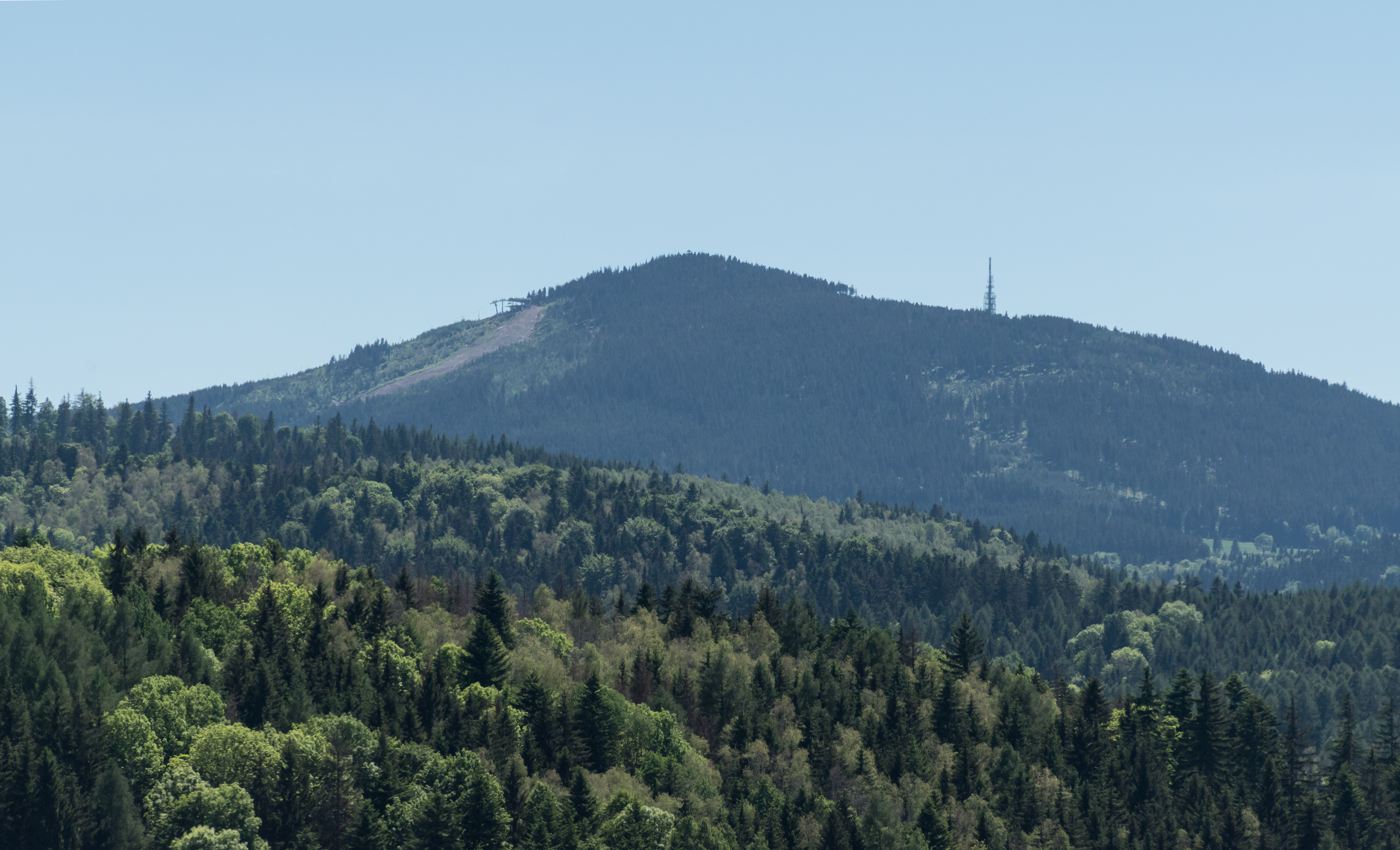 Czarna Góra, Śnieżnik Mountains, Sudetes